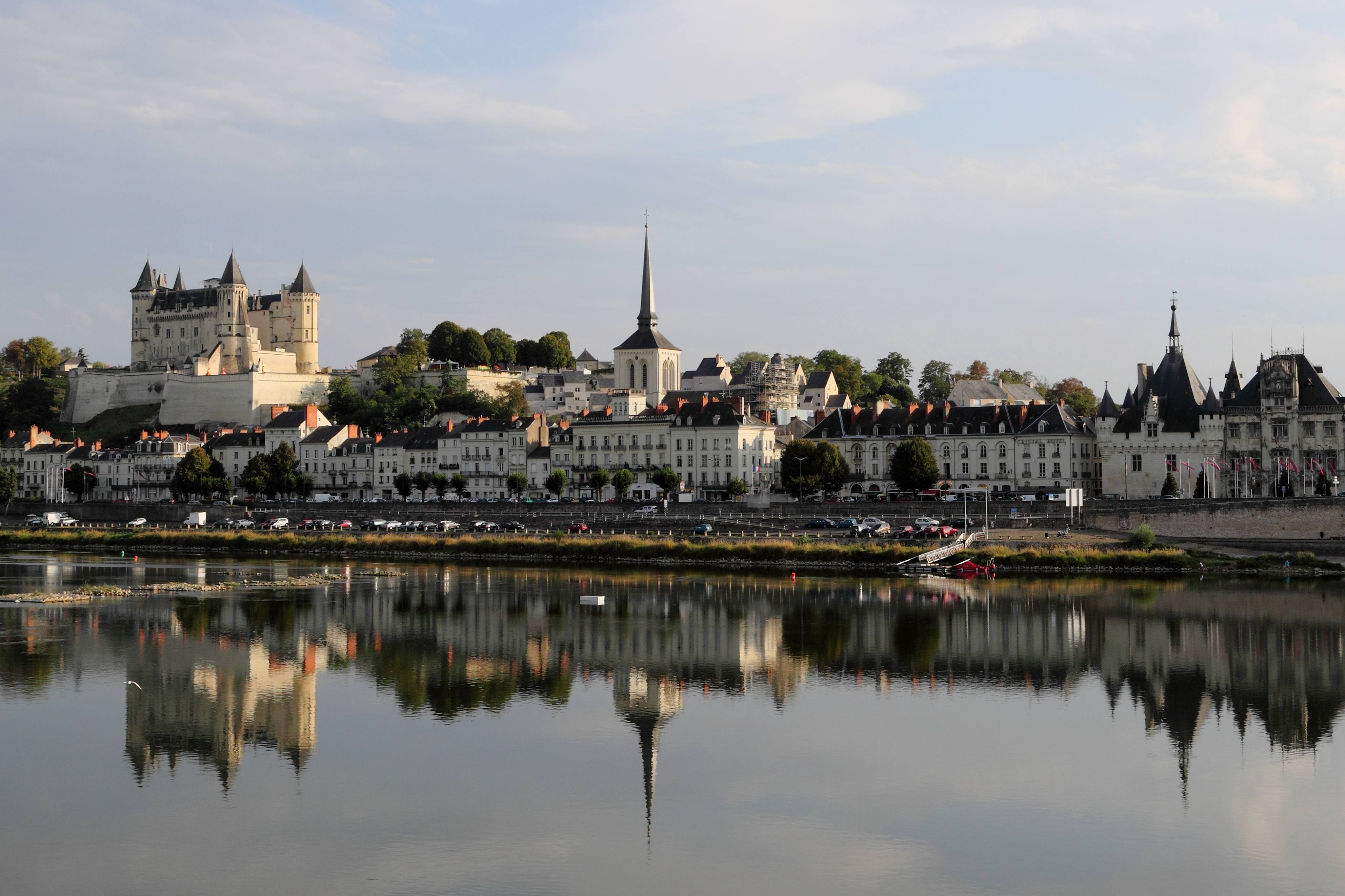 Panorama of Saumur